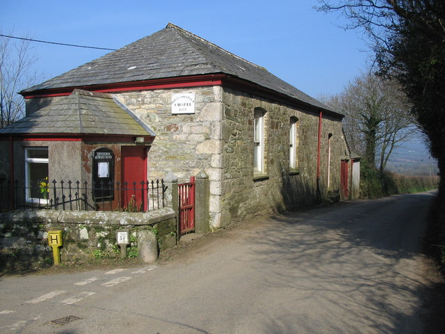 Treveighan chapel A view looking to the northwest towards the Methodist chapel at Treveighan.